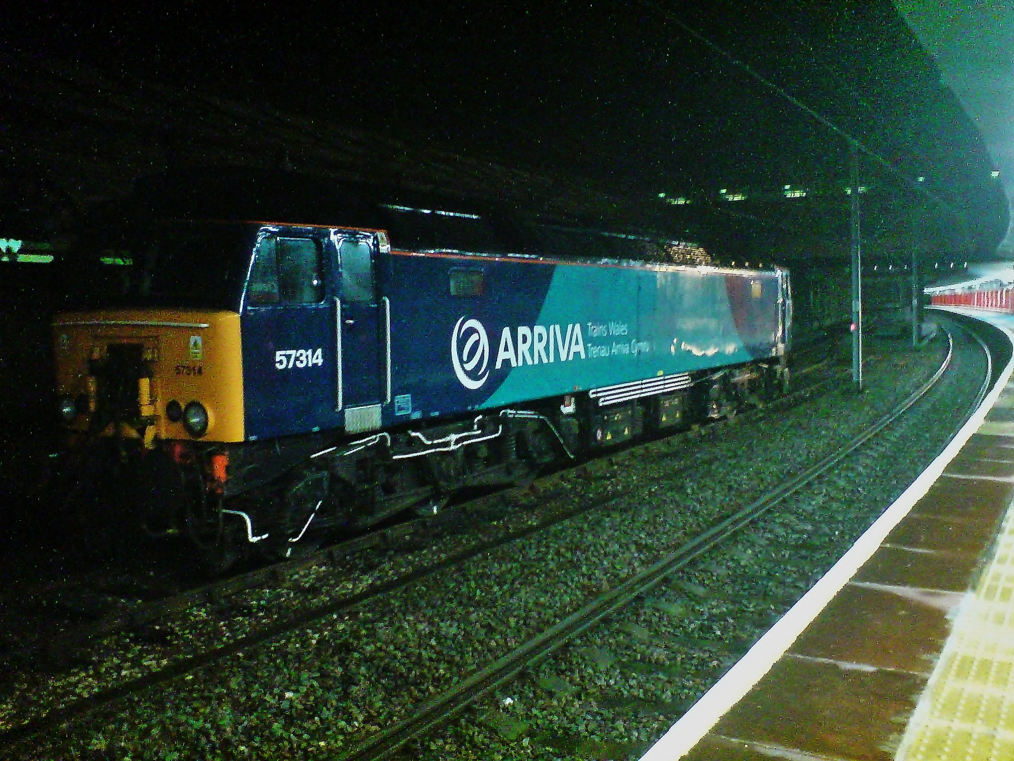 A rather crude quality image of one of Arriva Trains Wales' Class 57s standing in a siding between Platforms 11 and 12. Taken from the latter platform.